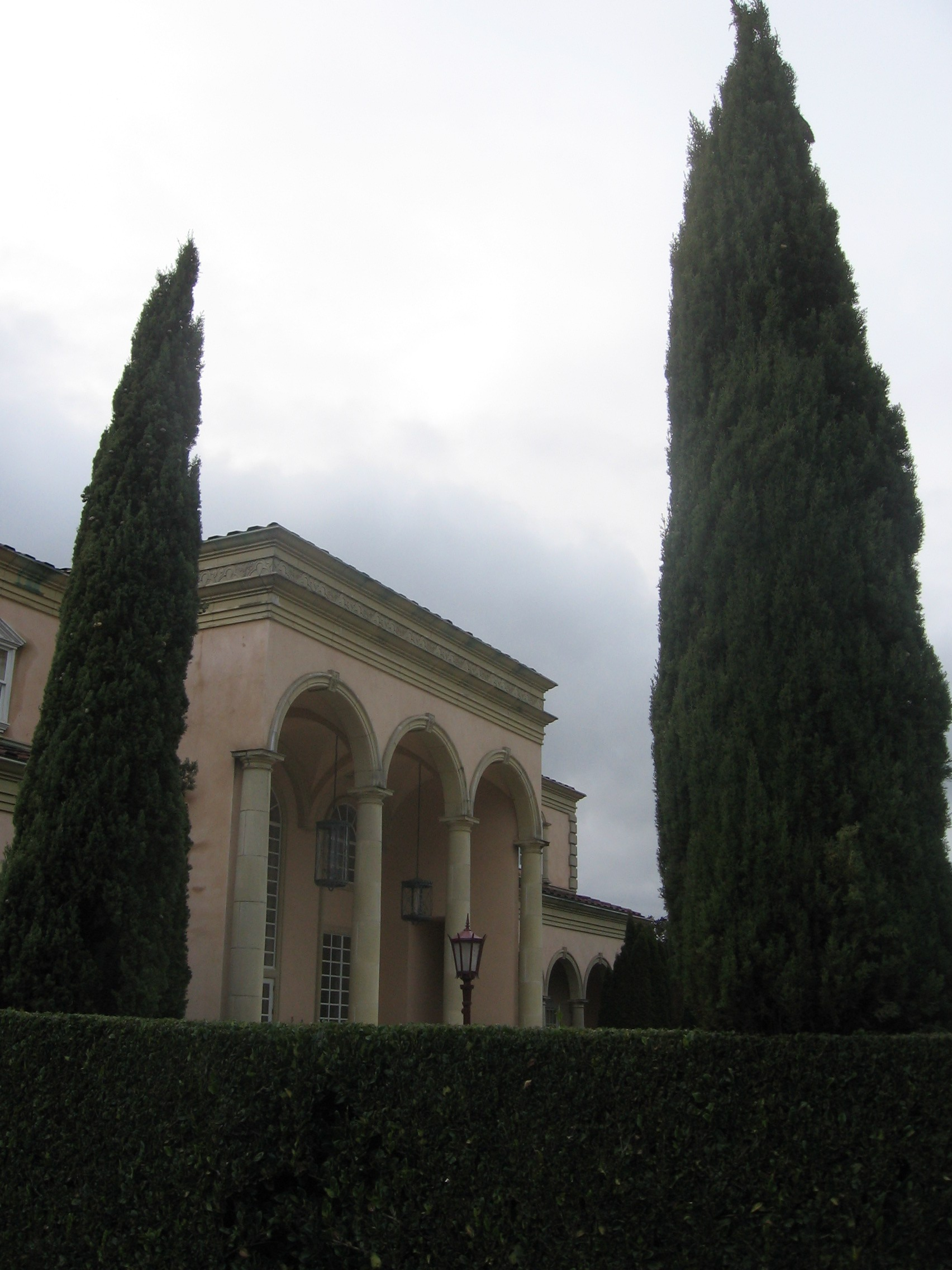 The villa at Ferrari-Carano